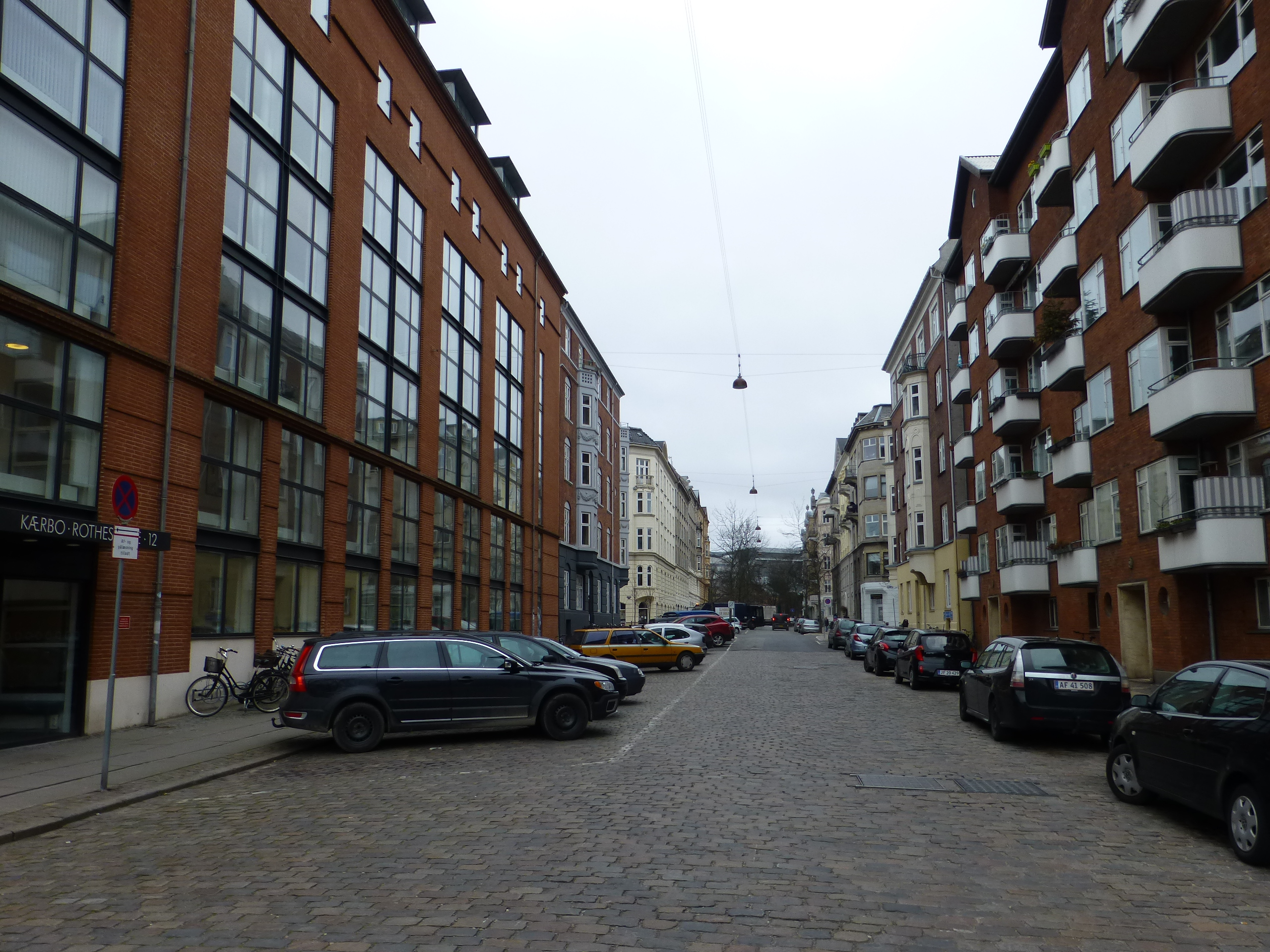 The street Rothesgade in Østerbro in Copenhagen.